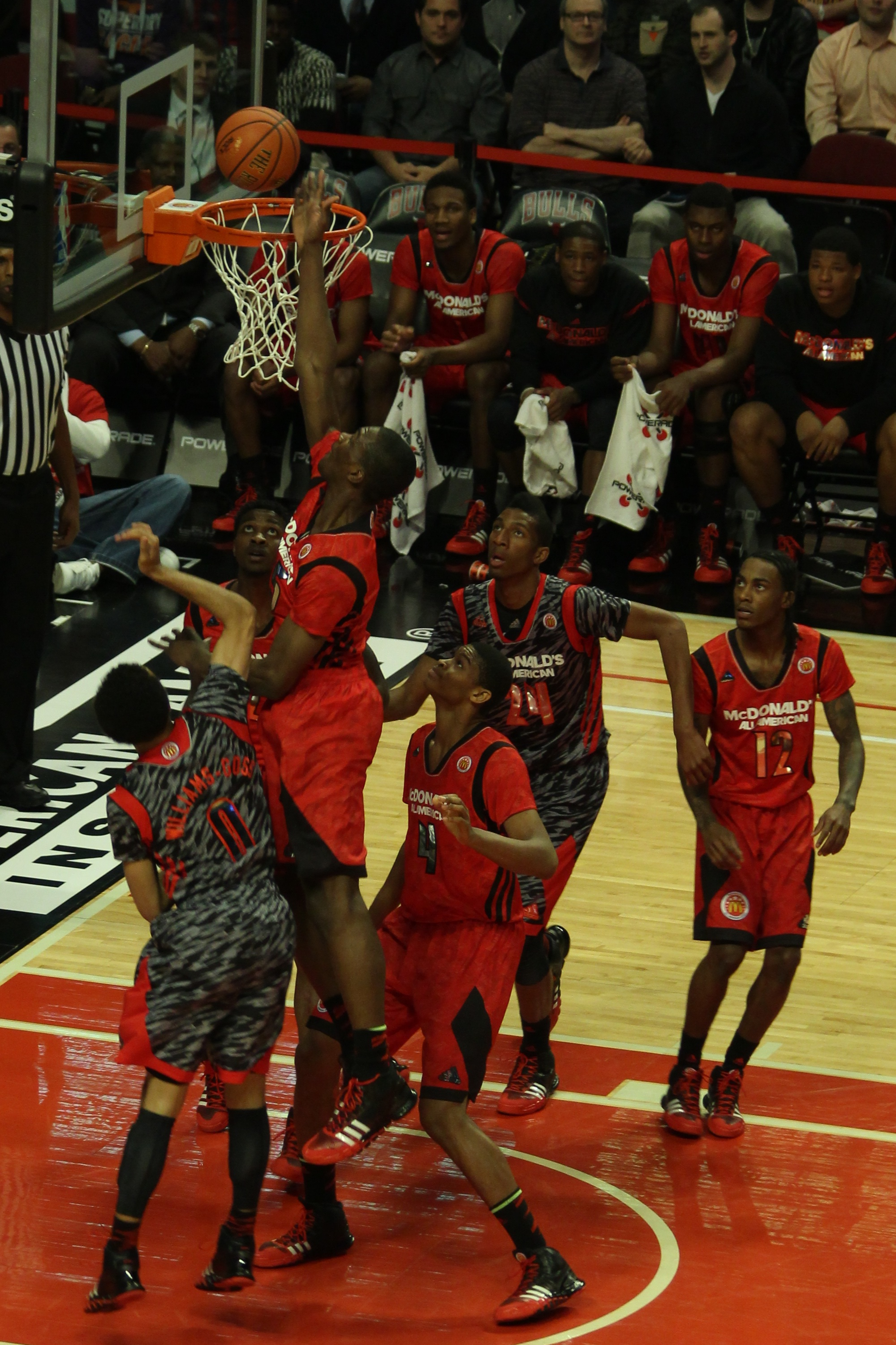 Noah Vonleh's goaltending violation gives Nigel Williams-Goss (#0) a layup in front of Isaiah Hicks (#4), Marcus Lee (#24), Anthony Barber (#12) and Chris Walker at the w:2013 McDonald's All-American Boys Game